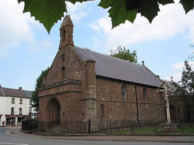 St. Thomas's Church, Monmouth Circa 1180 and subject to many constructional changes and restoration